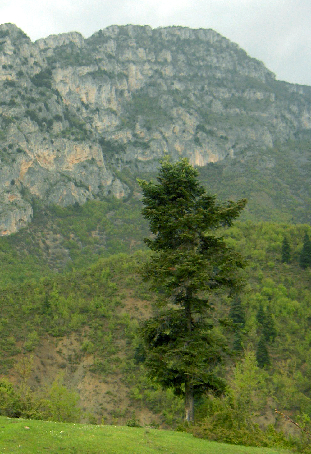 Bulgarian Fir Abies borisii-regis tree, Albania.